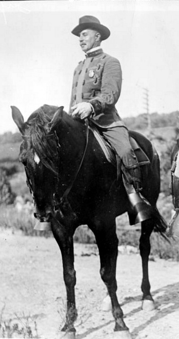 Supt. George Frederick Shrady, Aqueduct Police [between c.1910 and c.1915] 1 negative : glass; 5 x 7 in. or smaller. Notes: Title from unverified data provided by the Bain News Service on the negatives or caption cards. Forms part of: George Grantham Bain Collection (Library of Congress). Format: Glass negatives. Predates 1923. Repository: Library of Congress, Prints and Photographs Division, Washington, D.C. 20540 USA, General information about the Bain Collection is available at Persistent URL: Call Number: LC-B2- 2956-10